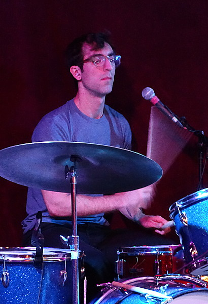 Chris Hoge of Bad Bad Hats performing at The Saint in Asbury Park, NJ, May 15, 2019. Photo by LH Collins.